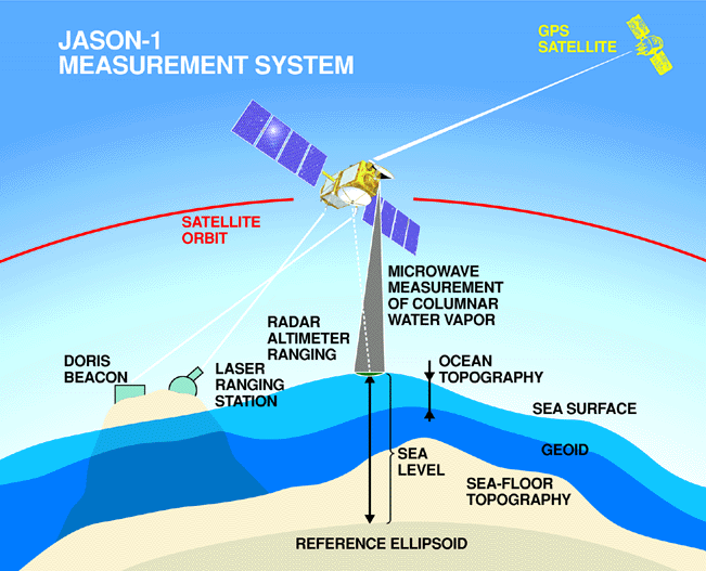 Every 10 days, Jason-1 measures the height of more than 90% of the world's ice-free ocean with its radar altimeter and completes 127 revolutions, or orbits, around Earth. To measure sea surface height it is necessary to know satellite's exact position in its orbit and the distance between the satellite and the ocean's surface. Corrections are made for variable amounts of water vapor in the lower atmosphere and free electrons in the upper atmosphere, which can delay the altimeter's microwave pulses. The sea height caused by gravity (the geoid) is mathematically removed in order to create maps of ocean surface topography.